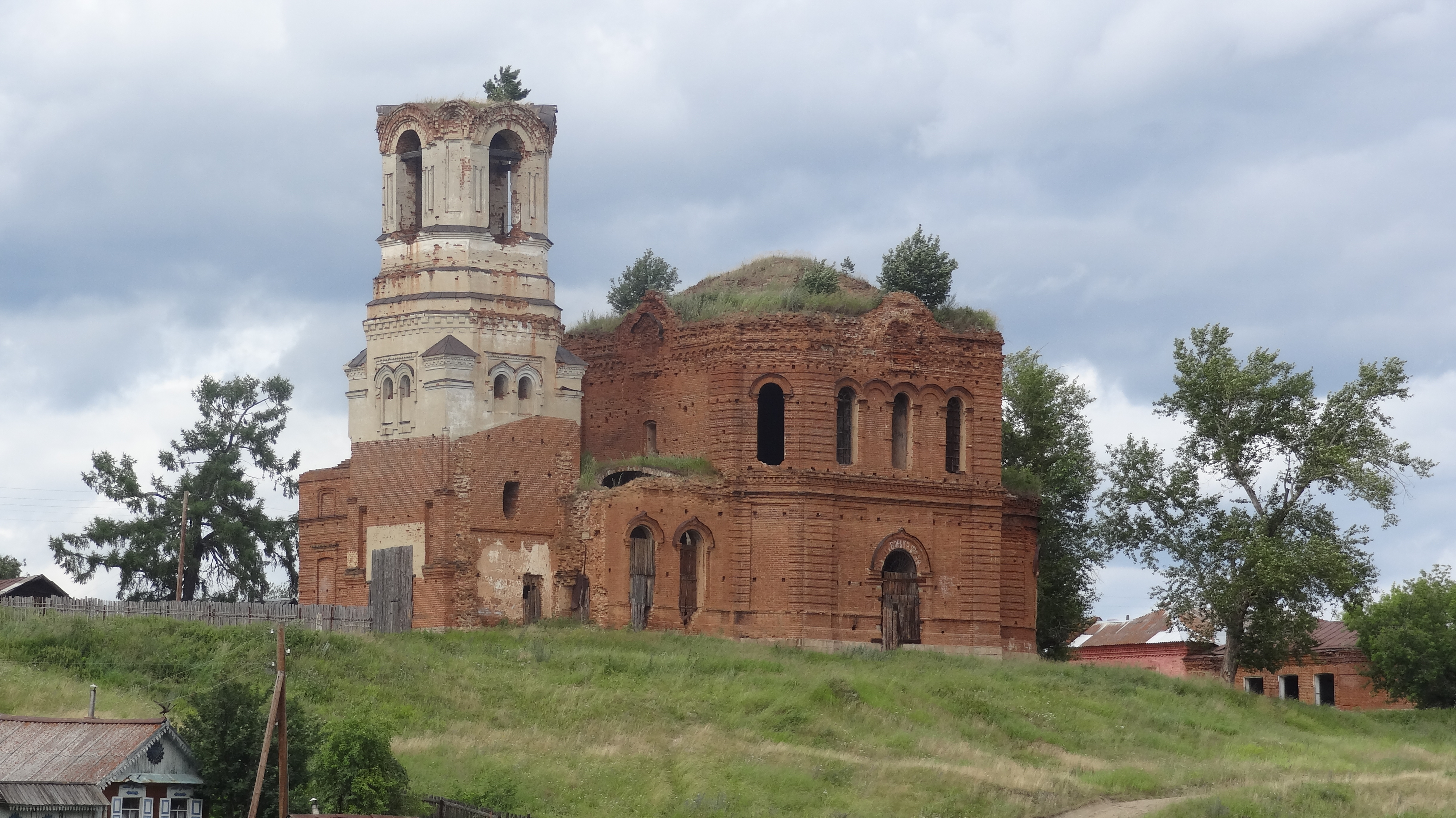 The Church of Saint Nicholas in Isetskoe village, Sverdlovsk Oblast, Russia.